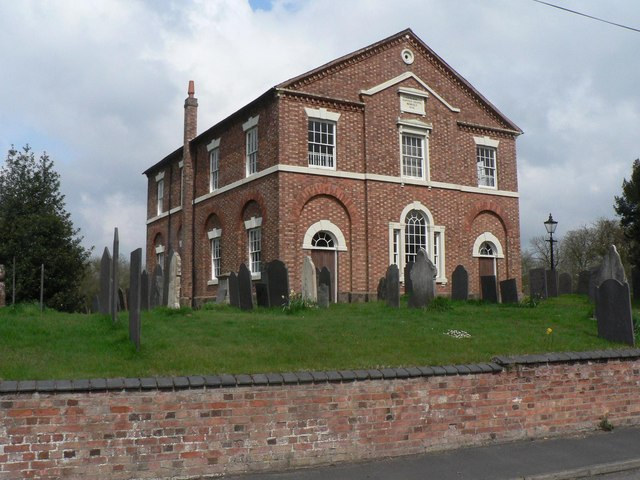 Barton in the Beans: Baptist chapel Rebuilt in 1841 according to the plaque in the gable, this chapel is on the main street in this most bizarrely named village.